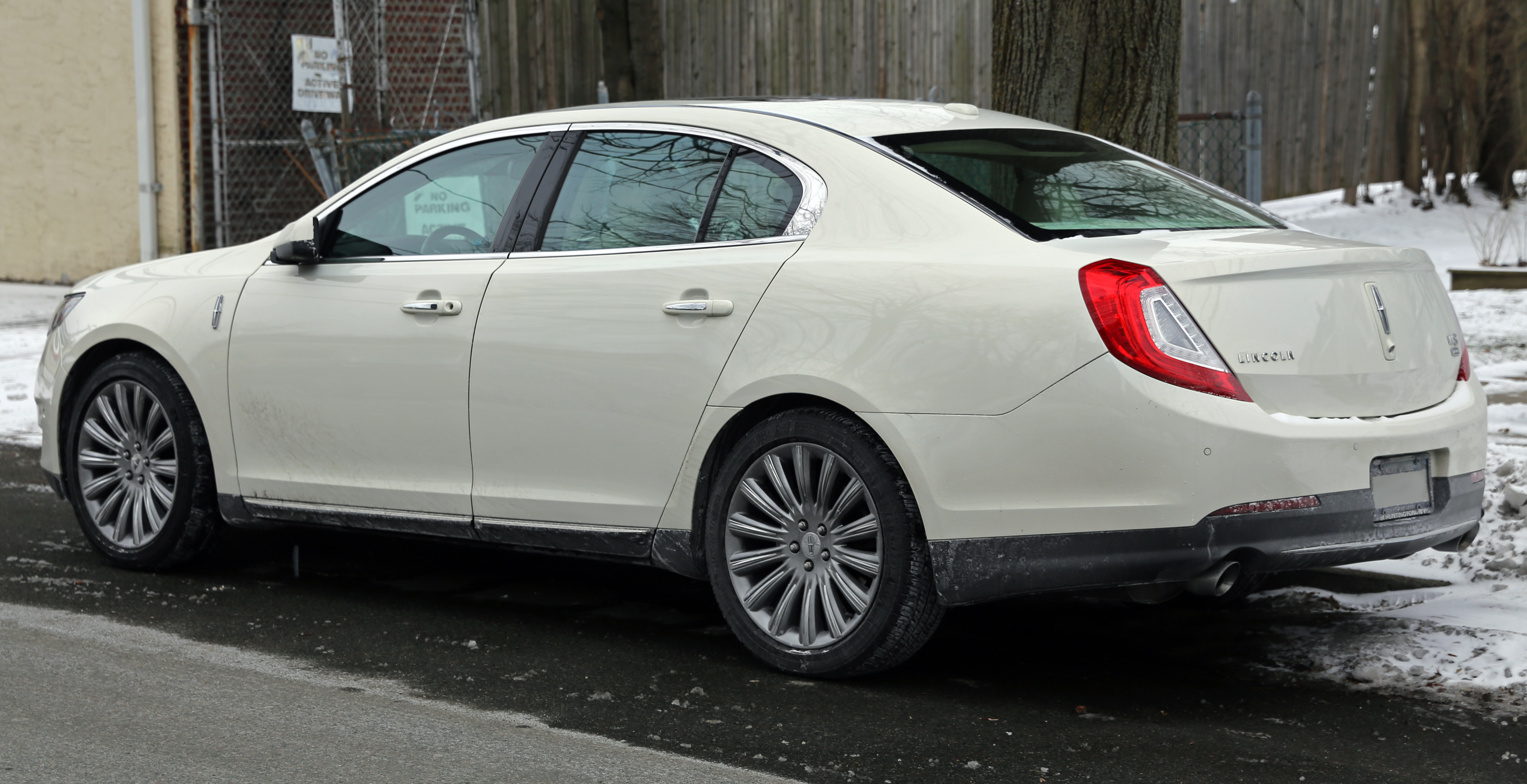 2013 Lincoln MKS AWD, facelift version. This one has the 305hp Ti-VCT 3.7 litre Duratec V6 engine.